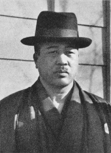 A Japanese judoka, Yaichihyōe Kanamitsu.